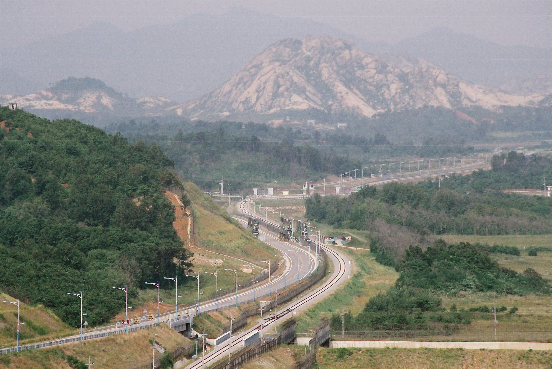 The picture of the Korean railroad Donghae-bukbu line on Korean DMZ, taken from the Goseong Tongil-Jeonmangdae(Unification Observatory), South Korea.